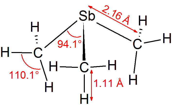 The annotated structure of Trimethylstibine. Data from Molecules containing Three or Four Carbon Atoms, Volume 25C by G. Graner, E. Hirota, T. Iijima, K. Kuchitsu, D. A. Ramsay, J. Vogt and N. Vogt. Springer-Verlag, 2001. ISBN: 978-3-540-66774-2 [1]